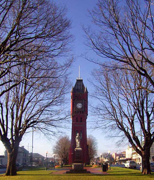 Camperdown Main street. Farsouth 14:50, 24 March 2007 (UTC)